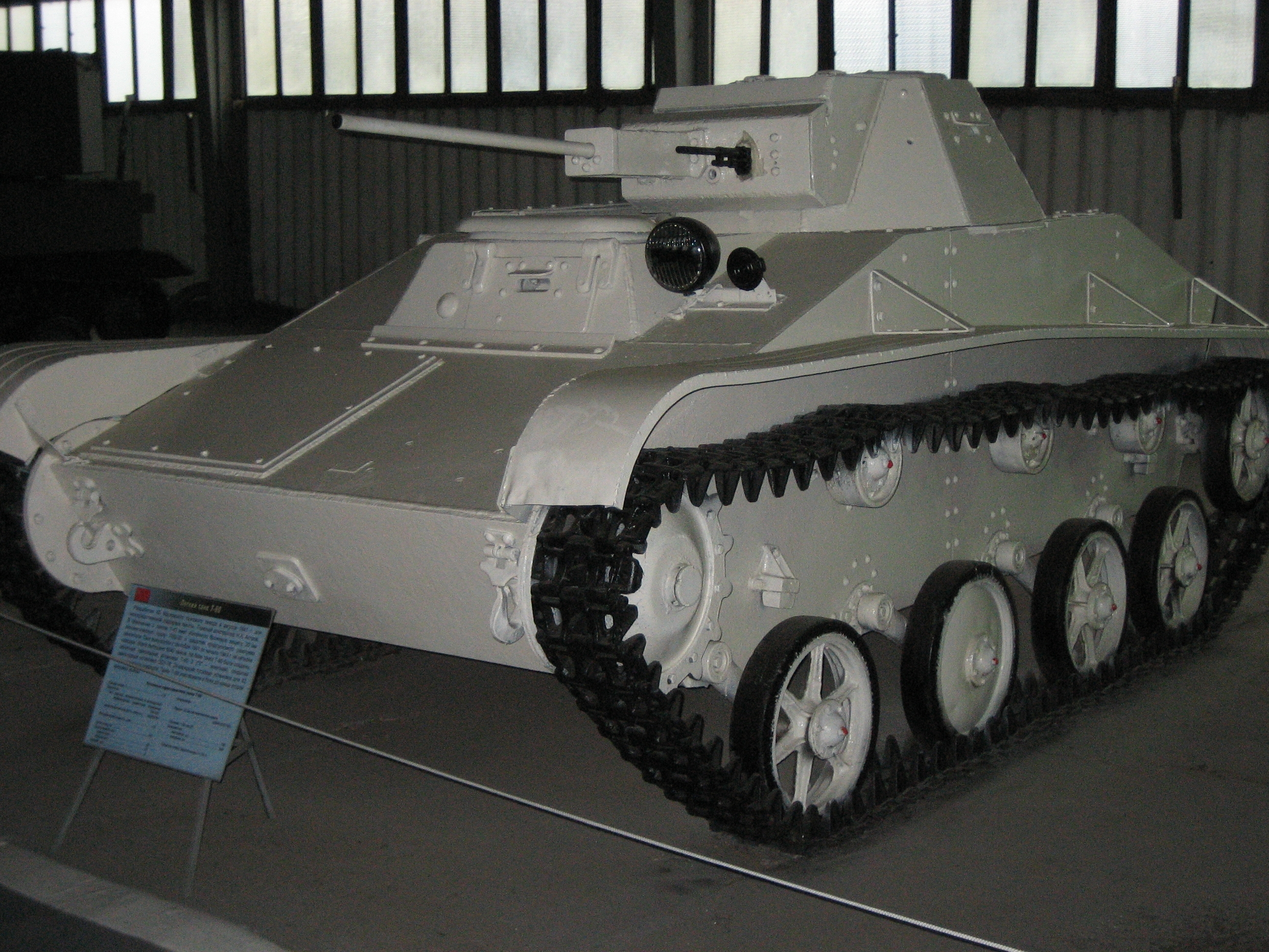 Soviet light infantry tank T-60, displayed in Kubinka Tank Museum.